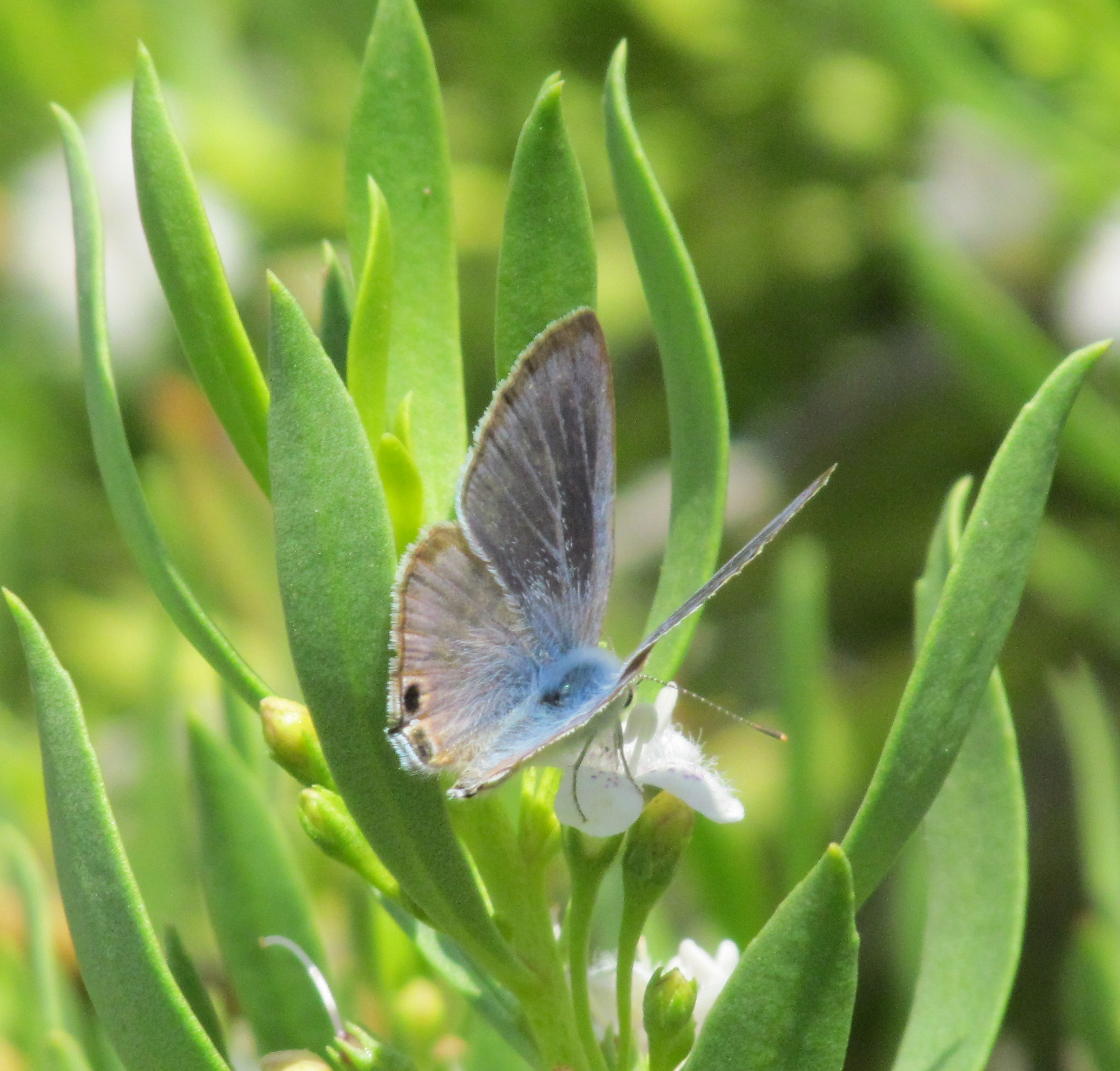 כחליל האפון בגיא בן הינום ב-10 במאי 2014